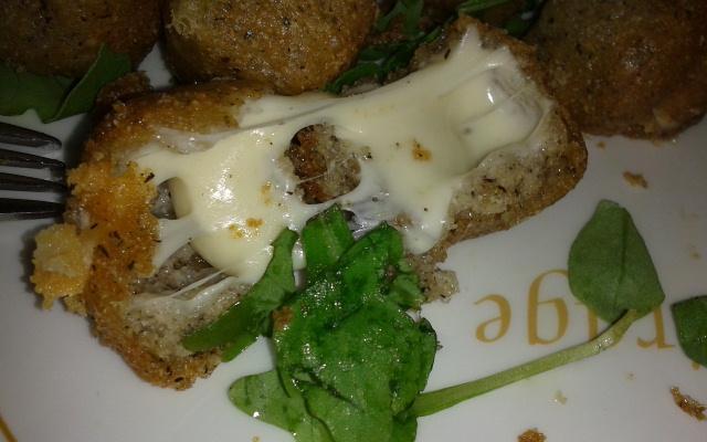 Warm Sciatt with Rocket Salad. Dish from Valtellina.